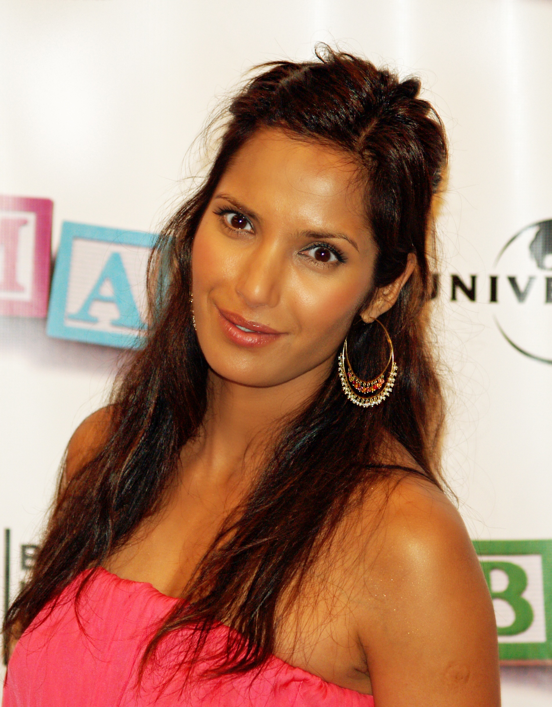 Padma Lakshmi at the premiere of Baby Mama in New York City at the 2008 Tribeca Film Festival.